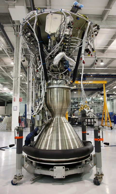 A SpaceX Merlin 1C Vacuum engine built at the company's Hawthorne, California facility. This engine will be used on a Falcon 9 rocket's second stage after being shipped to Cape Canaveral, Florida.